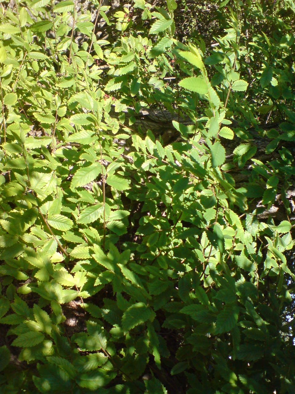 Hemiptelea davidii